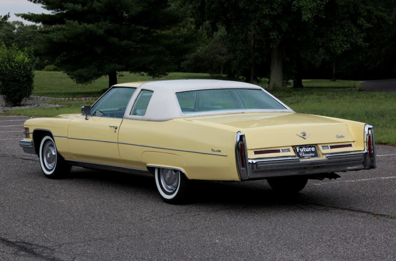 This is a picture of a vehicle (name of it is on the file name).